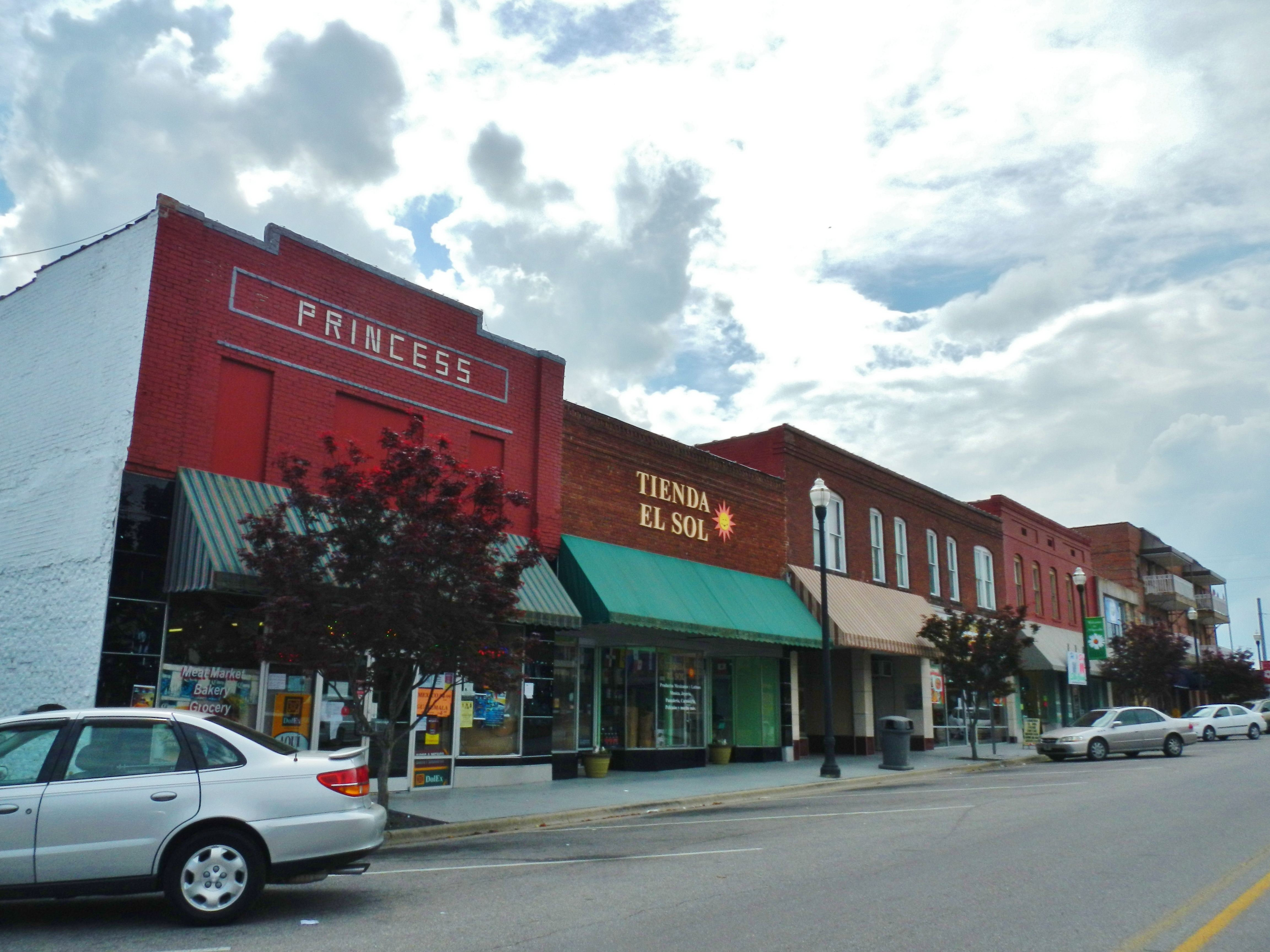 This is a photo of downtown Albertville, Alabama.